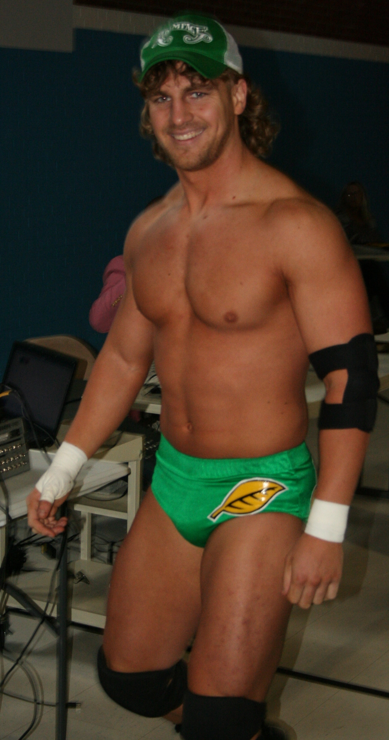 Adam Page at an FSPW show in October 2013.